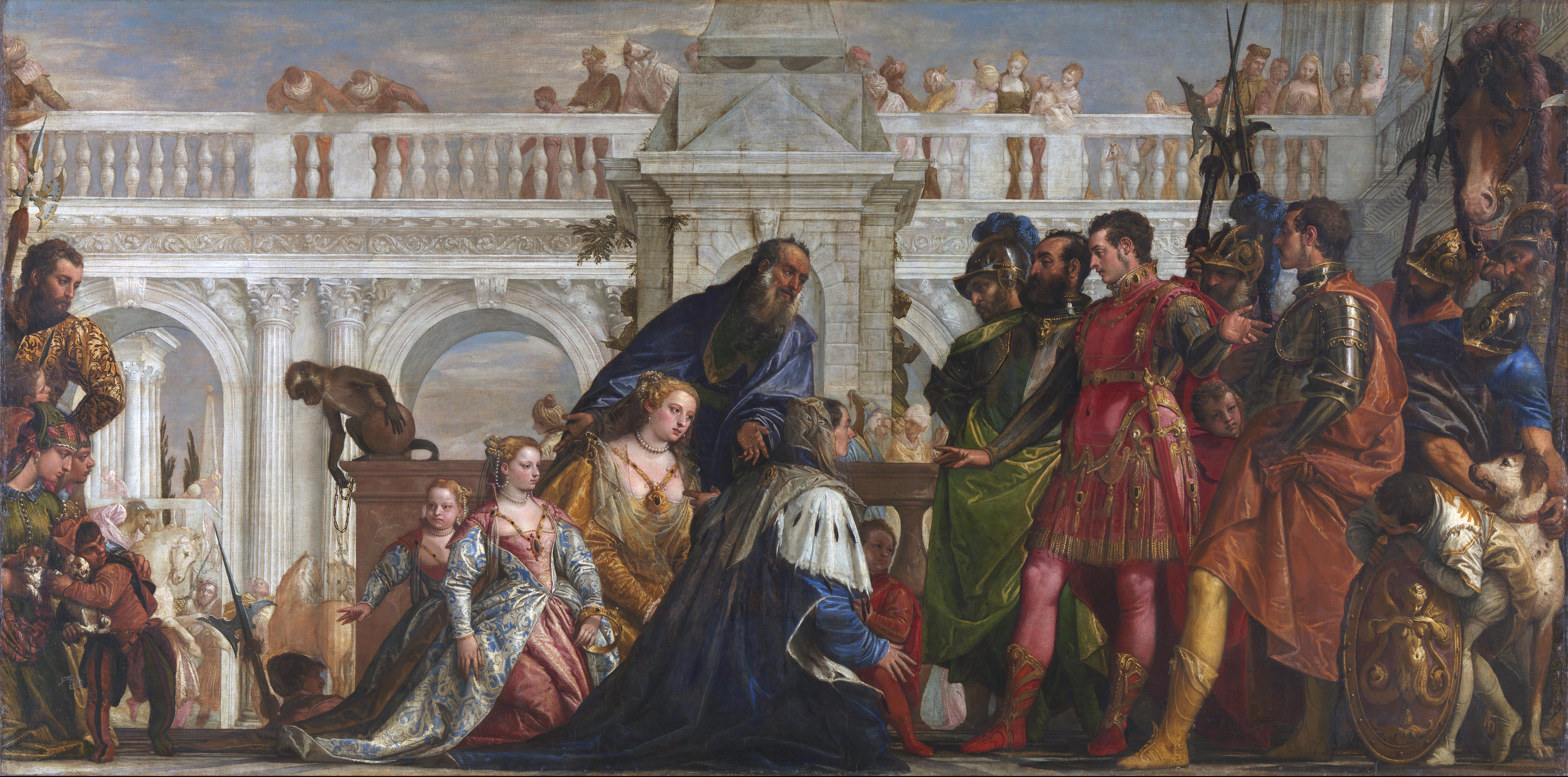 Family of persian king Darius before Alexander The Great and his friend Hephaestion after the Battle of Issus.